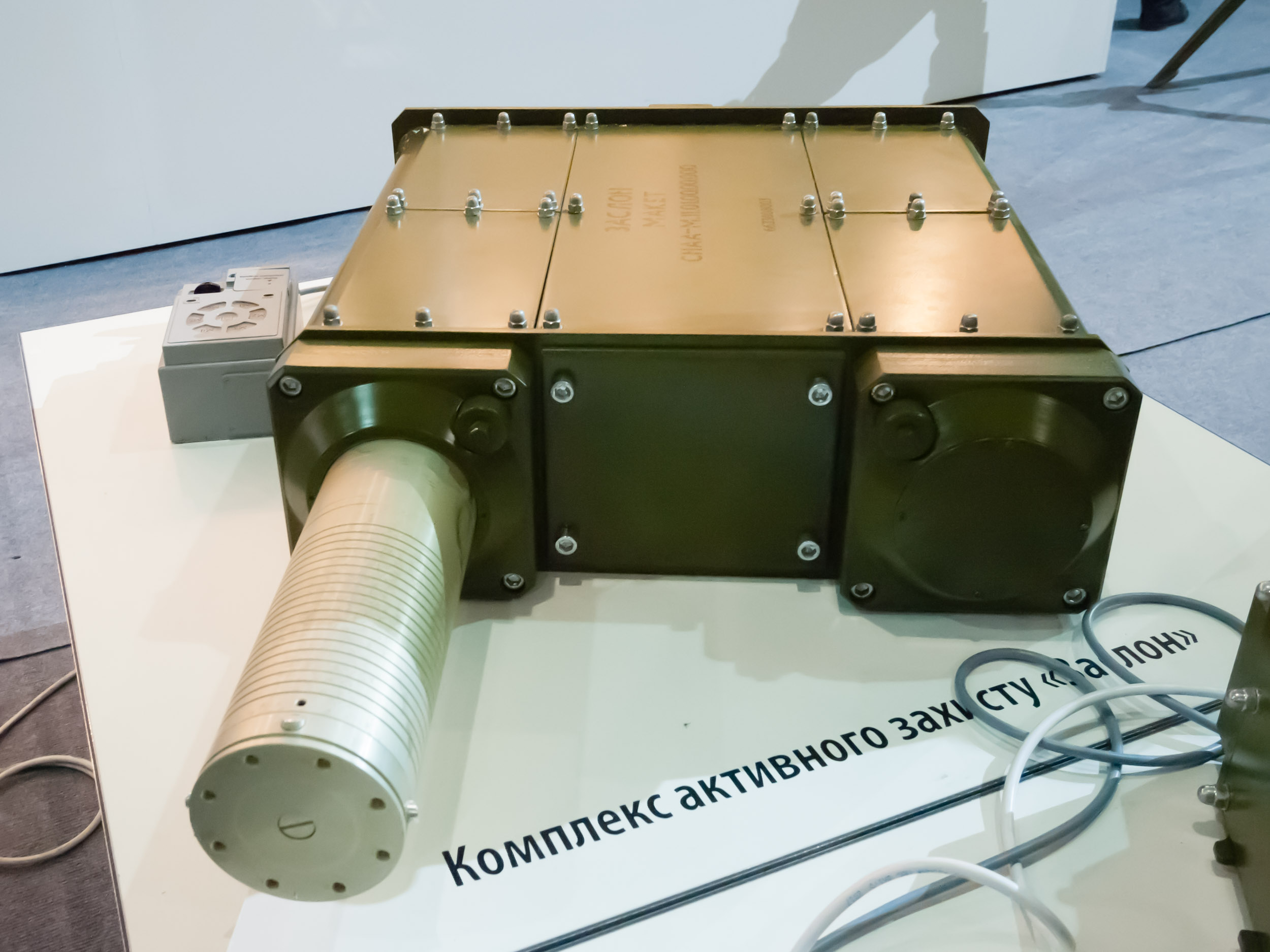 Zaslon active protection system, 'Zbroya ta Bezpeka' military fair, Kyiv, Ukraine, 2018